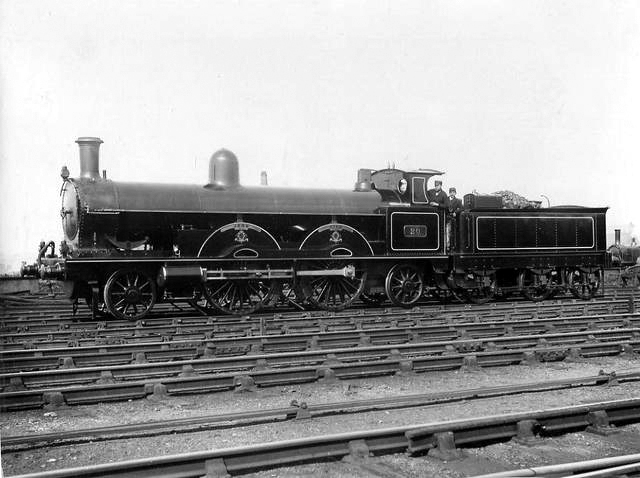 Photograph of LNWR engine No. 20 'John Hick'